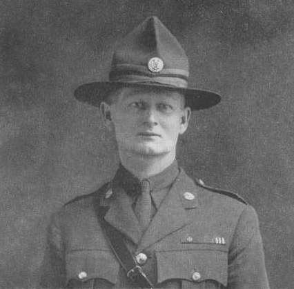 Portrait of 2nd Lieutenant Reginald Judson